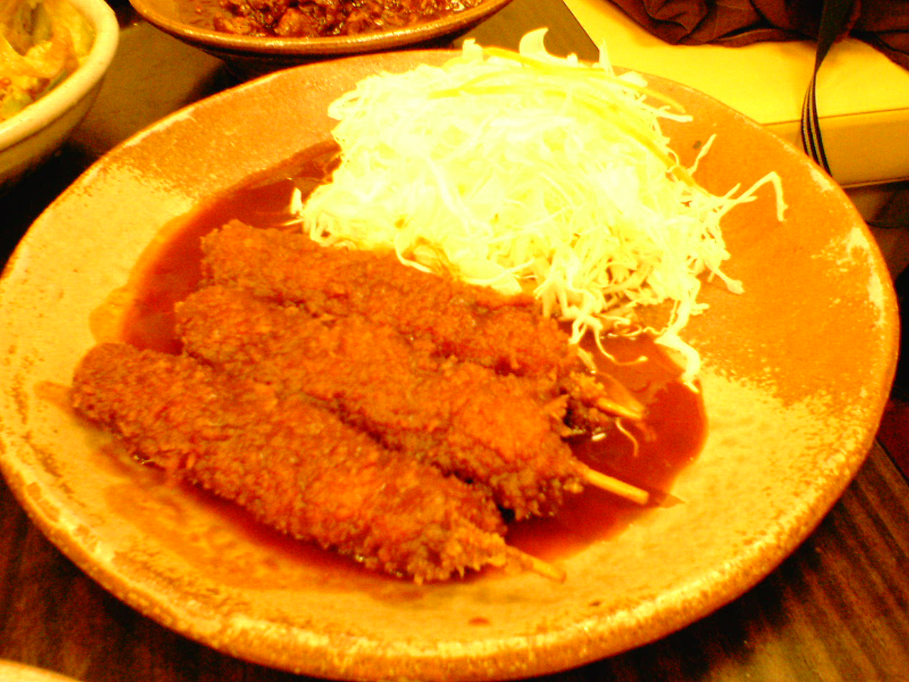 at Yabaton, authentic Nagoyan restaurant, in Ginza, Tokyo.